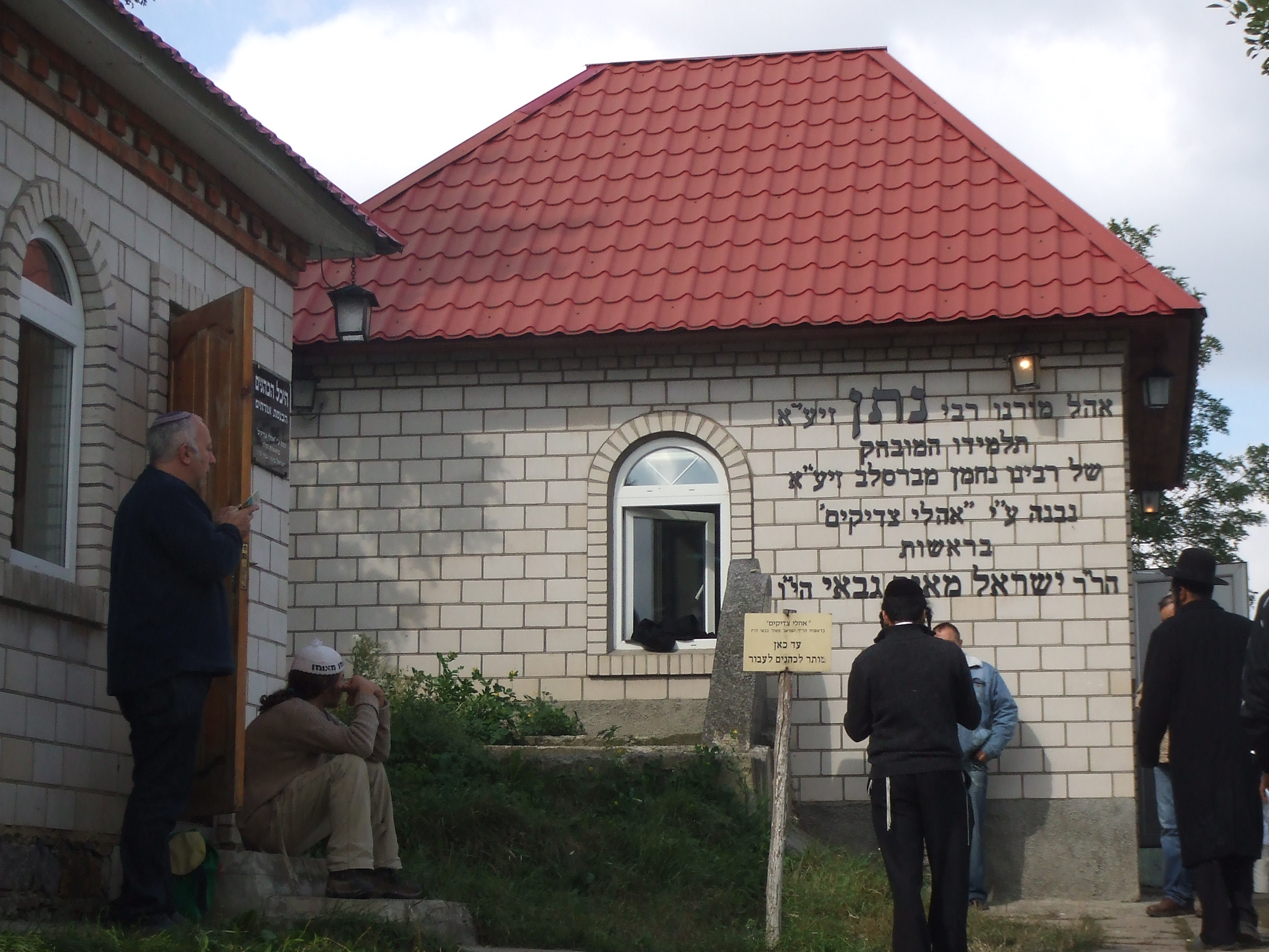 Tomb of Nathan Sternhartz, known as Nathan of Breslov